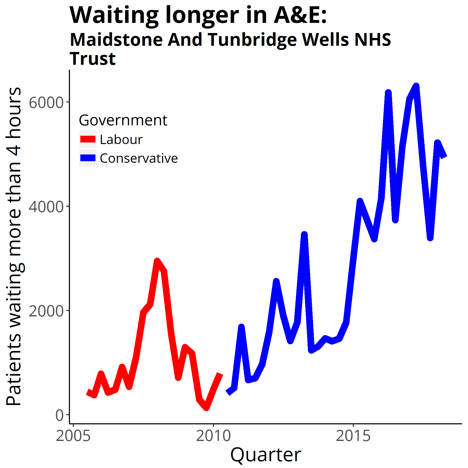 Four-hour target in the emergency department quarterly figures from NHS England Data from